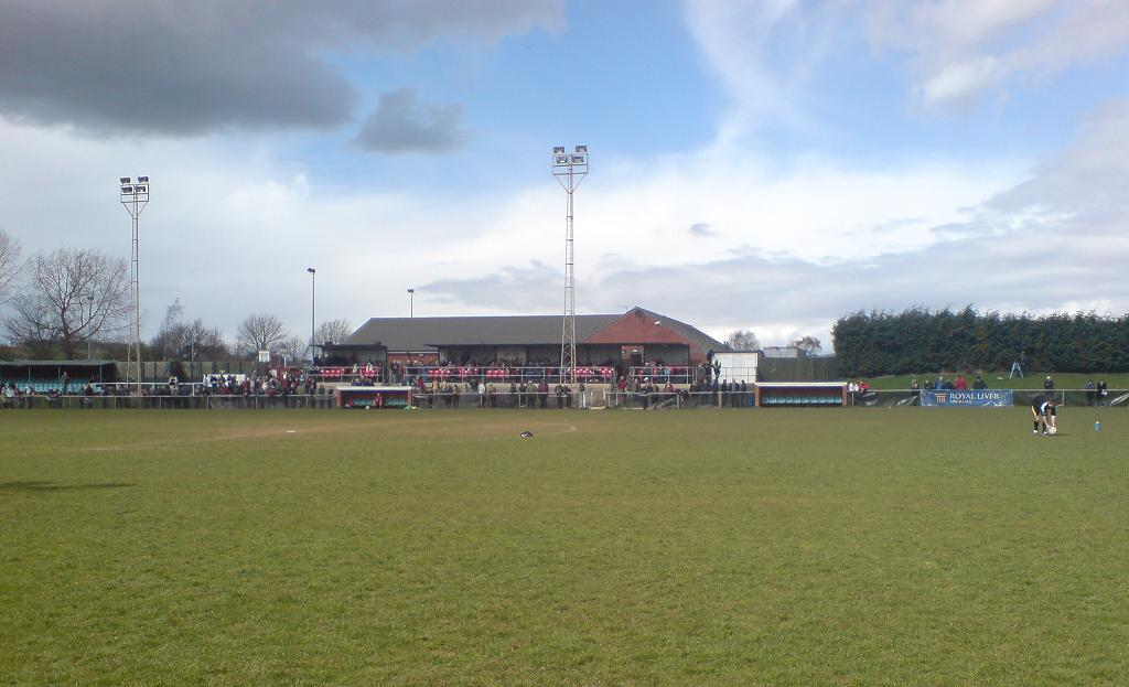 A photo of the main stand at Woodford United FC.